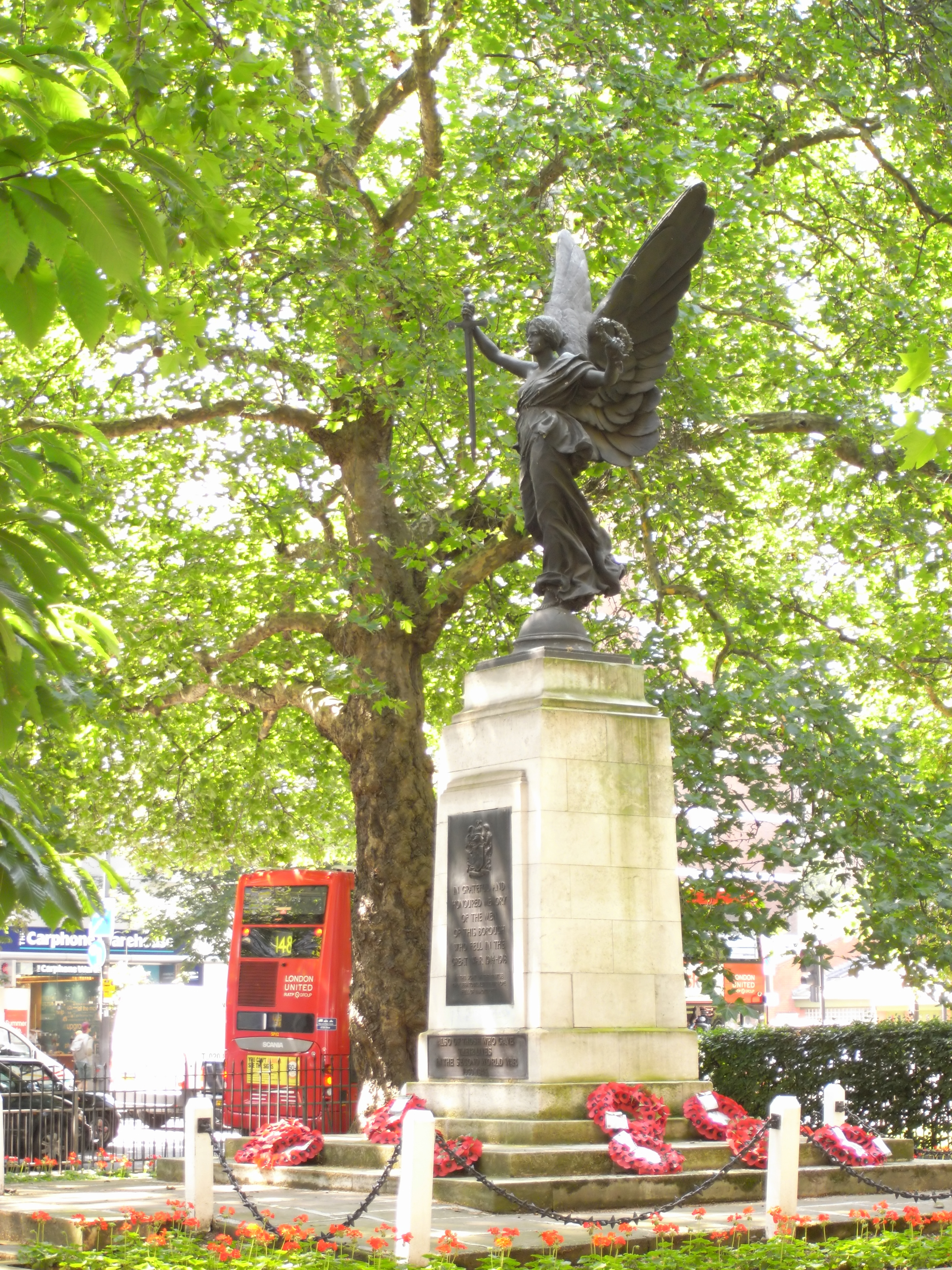 War memorial on the east end of Shepherd's Bush Green, London, in the form of a Winged Victory.